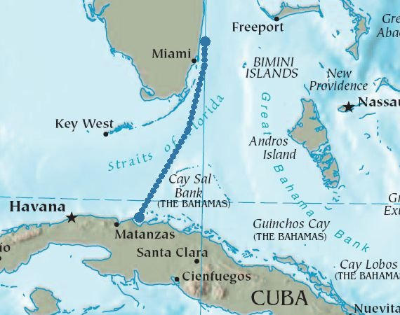 Elian Gonzalez's journey from Cuba to Fort Lauderdale.